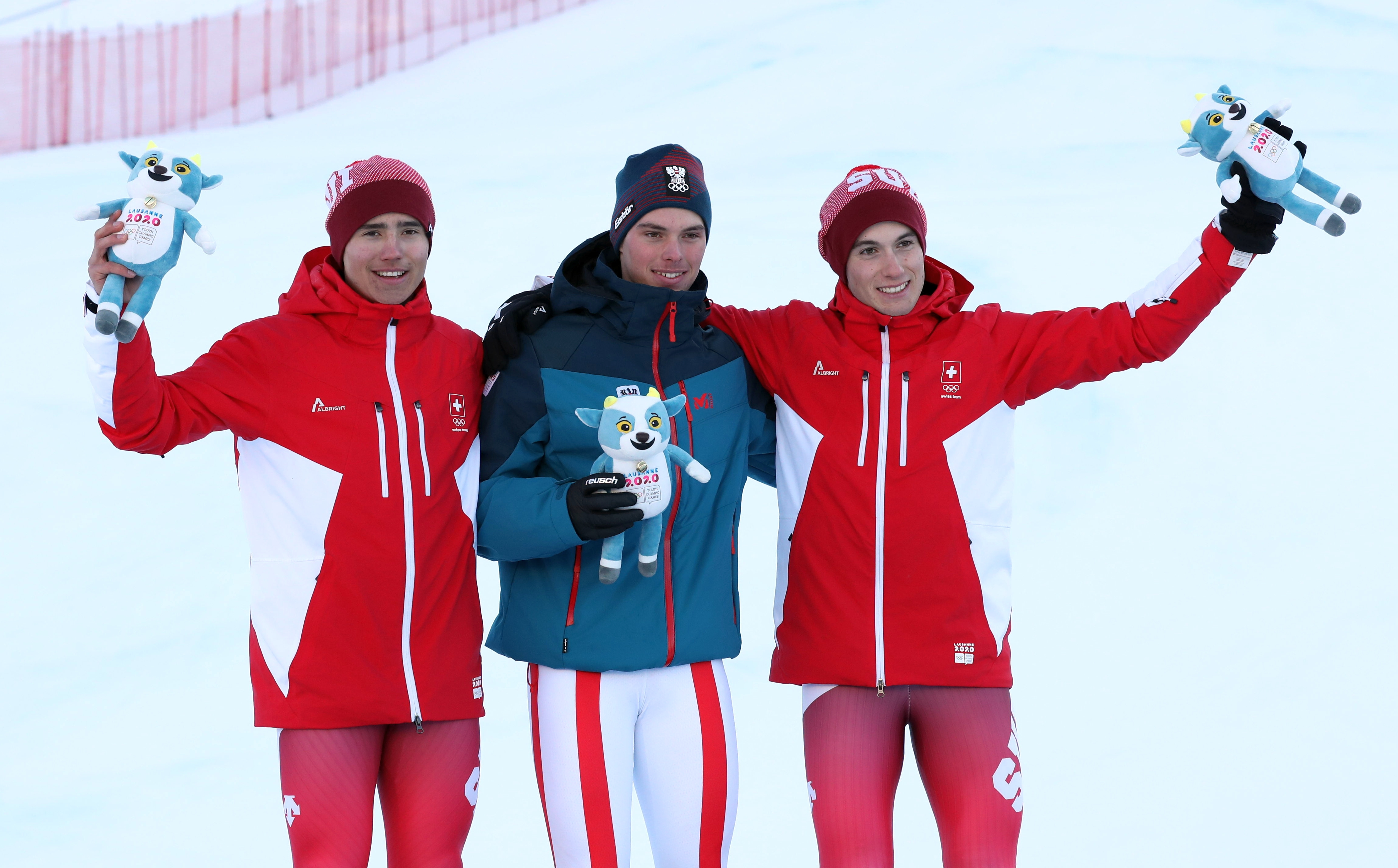 Mascot Ceremony at the Men's Giant Slalom at the 2020 Winter Youth Olympics in Lausanne